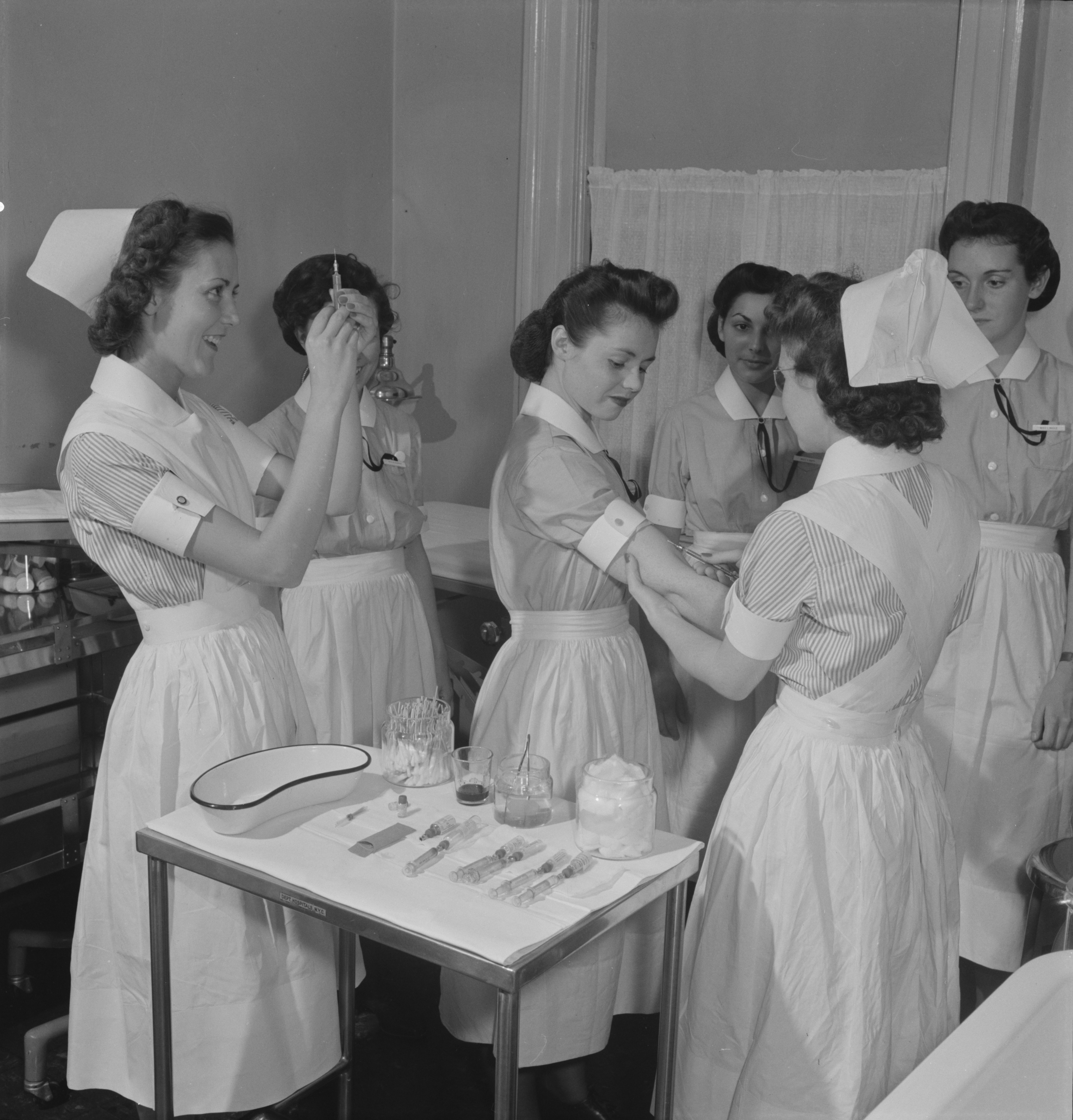 Title: Nurse training. With migration of large numbers of people to new communities, epidemics are a latent possiblity. In New York City's School of Nursing Residence, advanced students give the Schick and Dick test (for Diphtheria and Scarlet Fever, respectively) to the probationers. By learning to protect her own health, the student nurse gets a vivid lesson in the disease prevention measures she must teach her patients Creator(s): Henle, Fritz, 1909-1993, photographer Related Names: United States. Office of War Information.